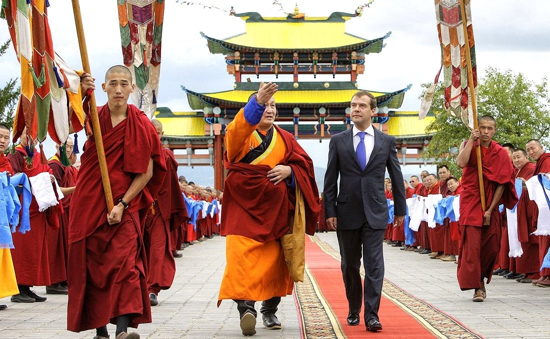 VERKHNYAYA IVOLGA, BURYATIA. Visiting Ivolga Datsan.